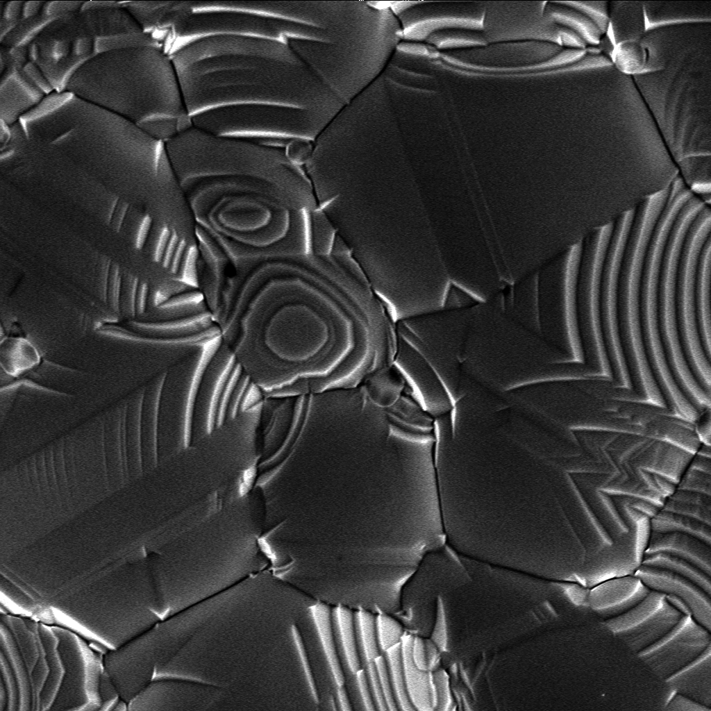 silver crystal growth over a ceramic substrate. SEM microscope image. Used for very low electric resistance electric contact